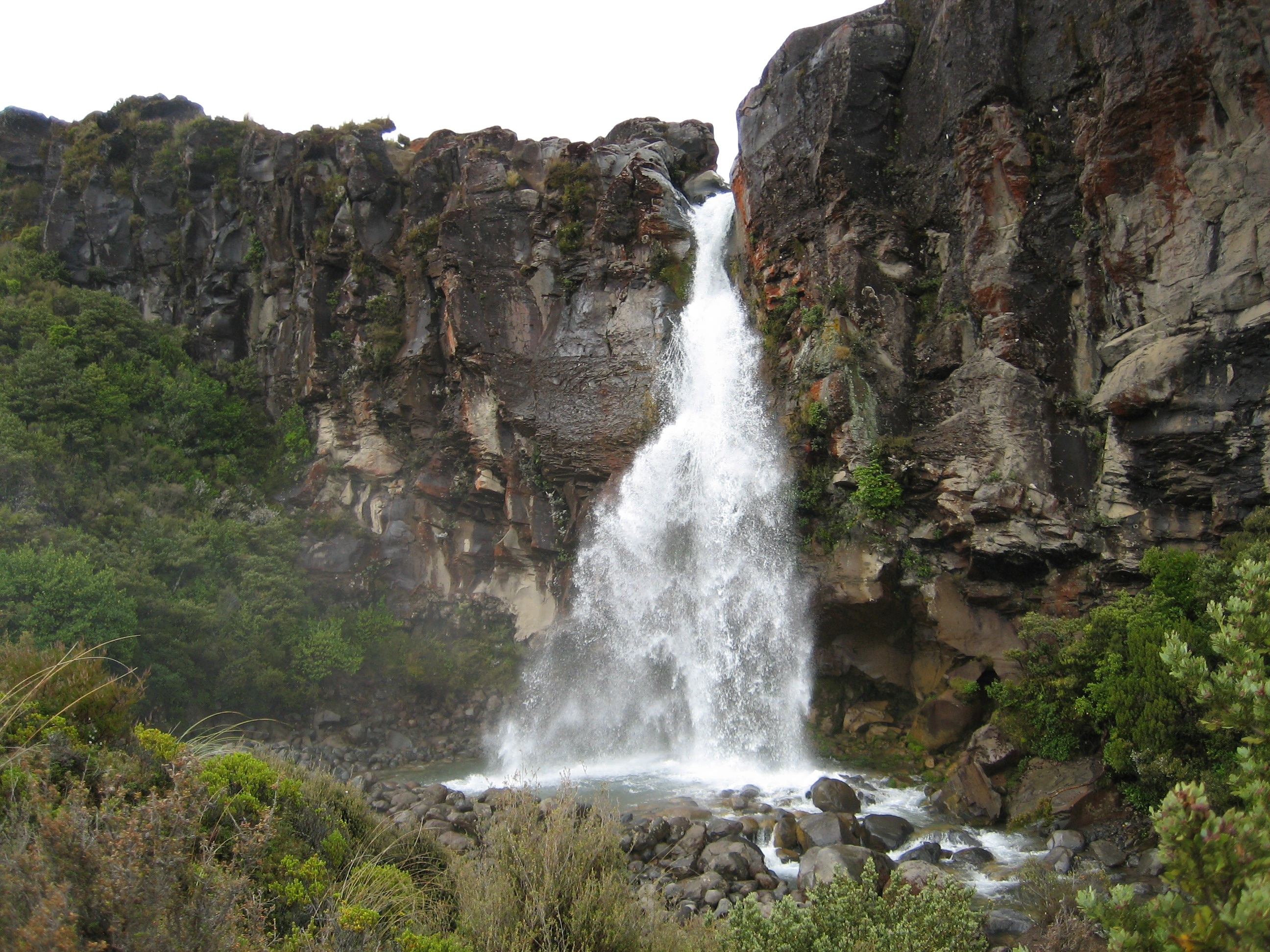 Taranaki Falls is located just off the Tongariro Northern Circuit in Tongariro National Park, New Zealand.